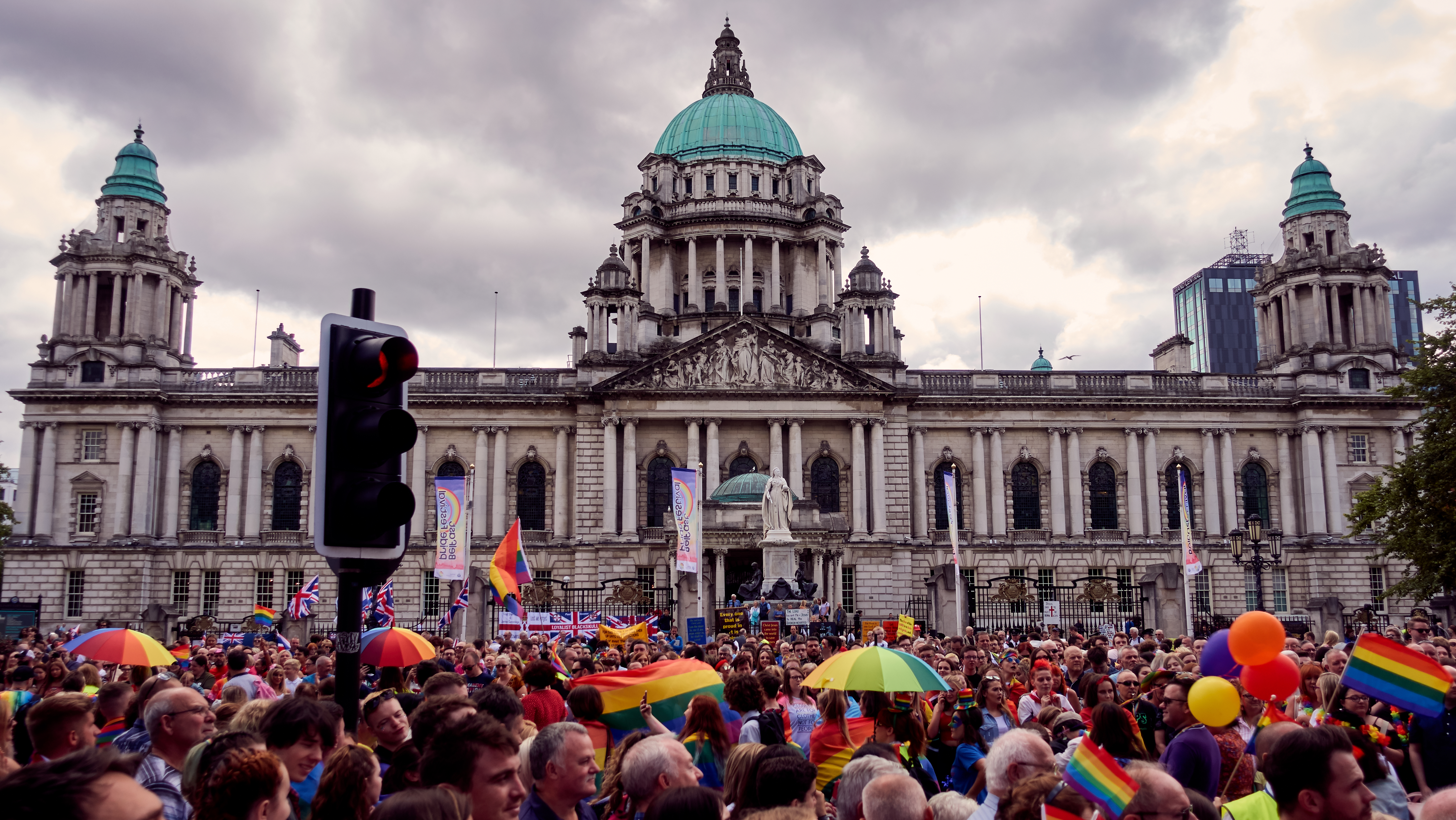 Belfast Pride Parade passing in front of Belfast City Hall. A small group of protesters can be seen at front of the City Hall gates.